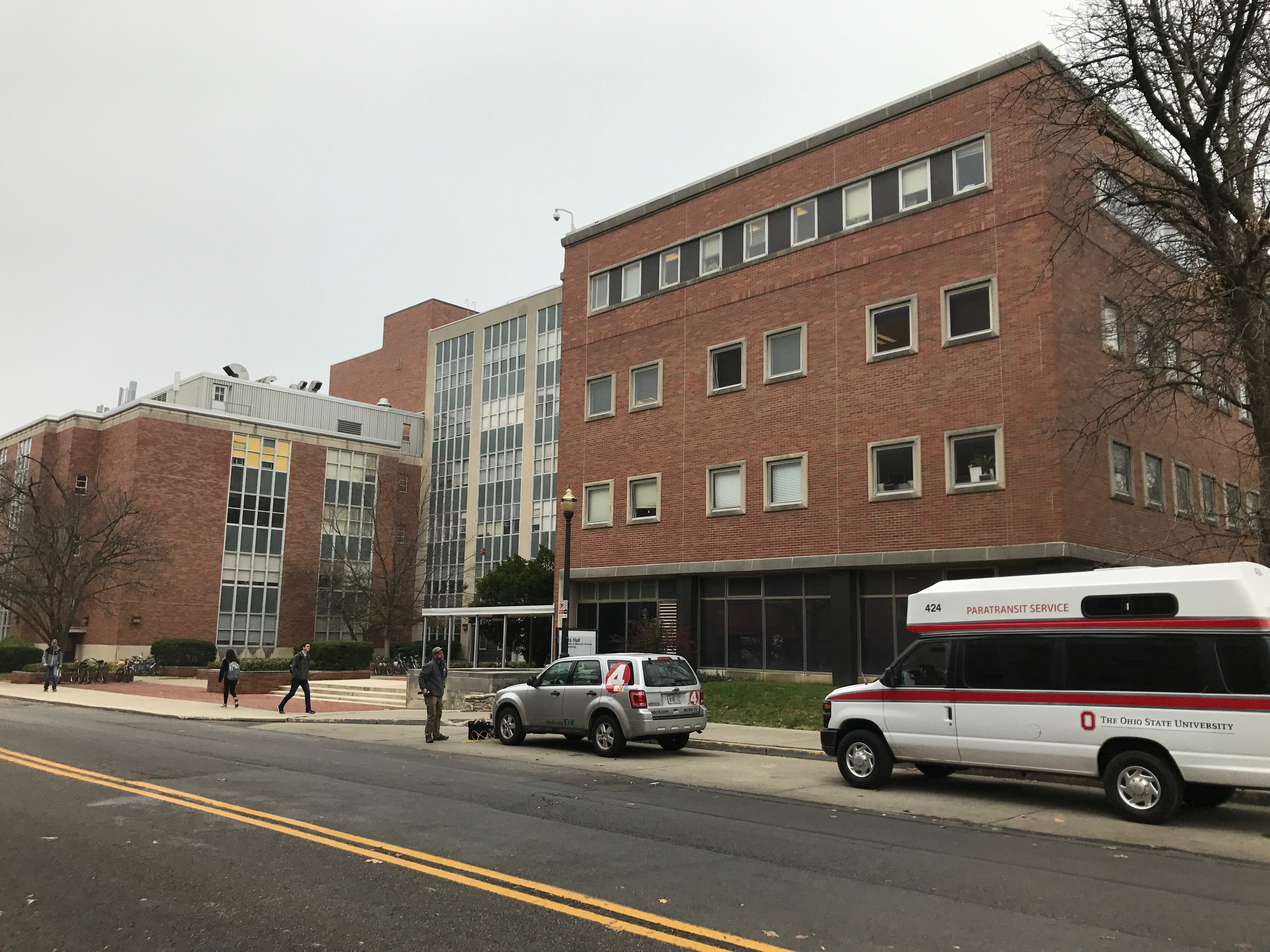 The courtyard outside Watts Hall (left building), where 2016 OSU attack happened on November 28th.